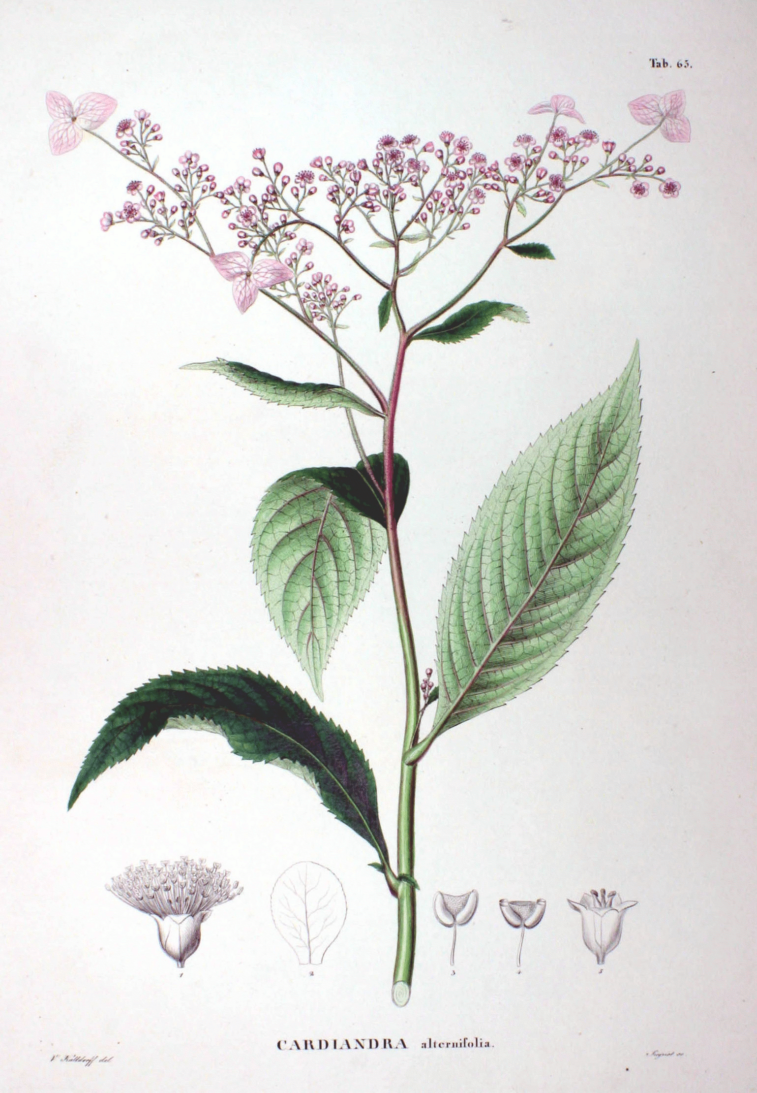 Cardiandra alternifolia Plate from book